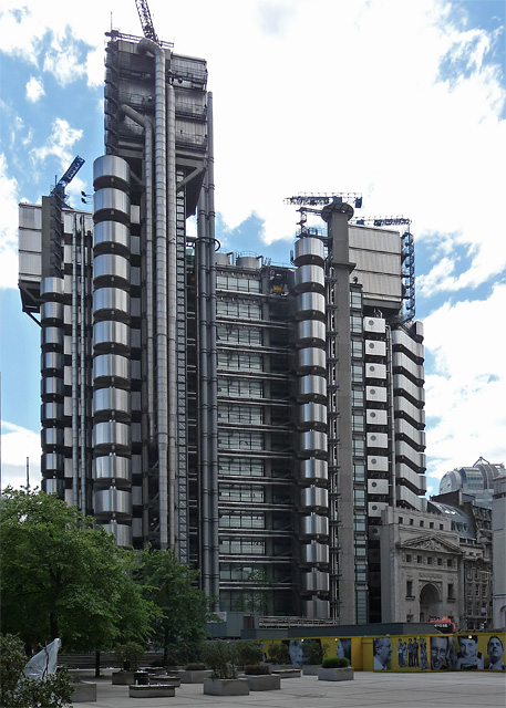 Lloyd's of London, Leadenhall Street (1)